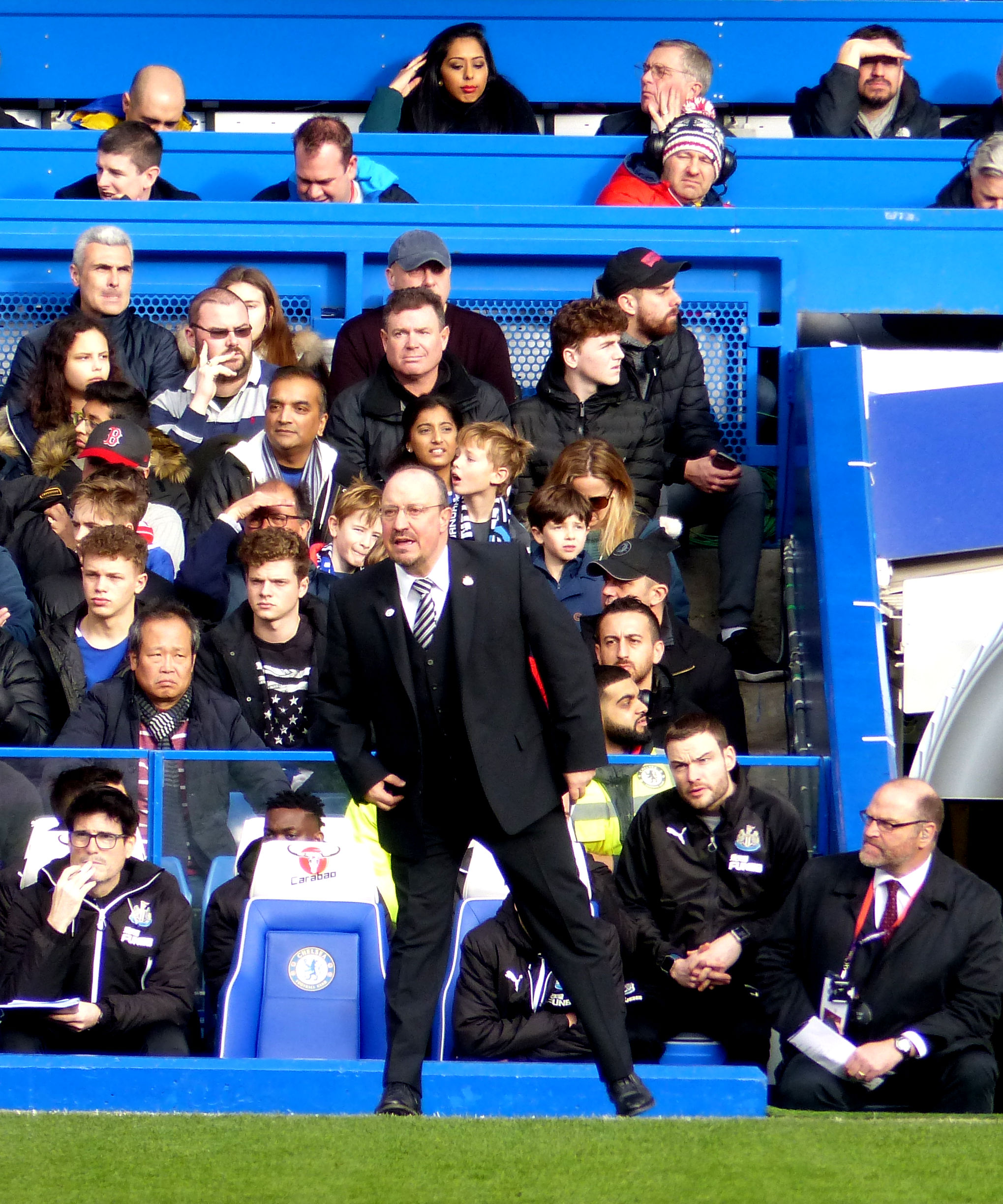 Rafael Benítez on the touchline against Chelsea in the FA Cup Jan 28th 2018